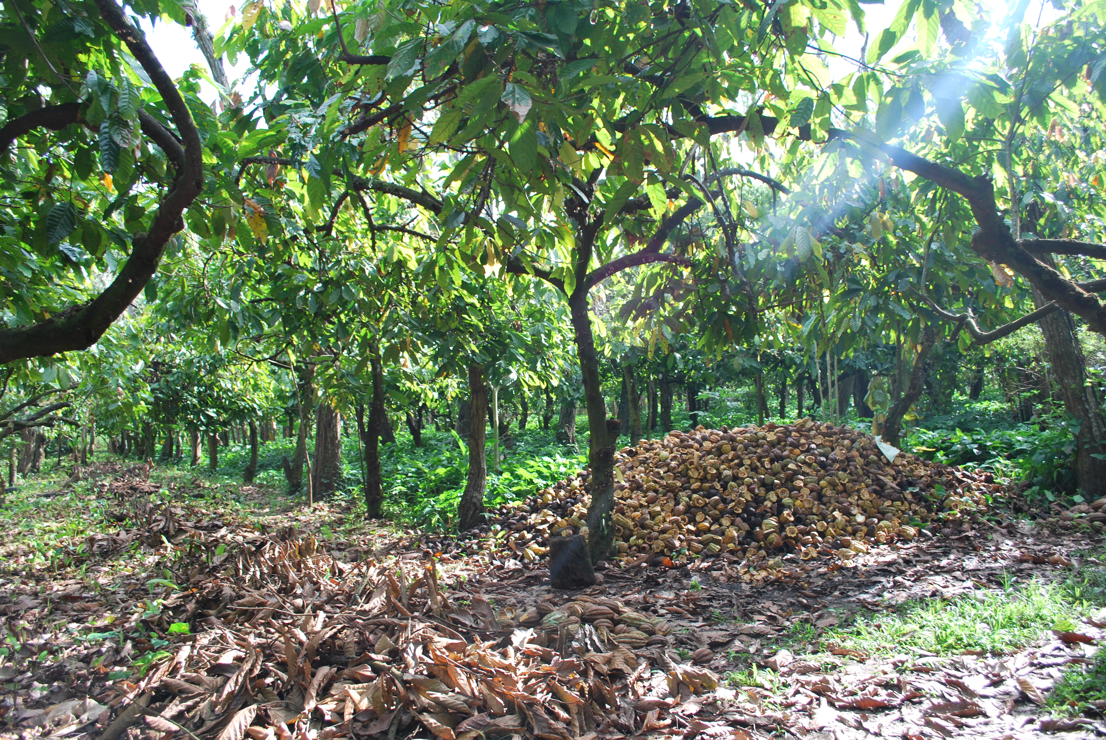 View of the coconut grove at the La Chonita Hacienda in Tabasco, Mexico